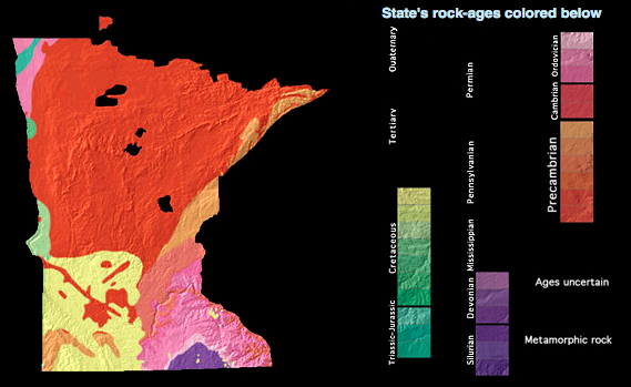 A bedrock geologic map by age of the US state of Minnesota. Part of the Tapestry of Time and Terrain project of the United States Geological Survey